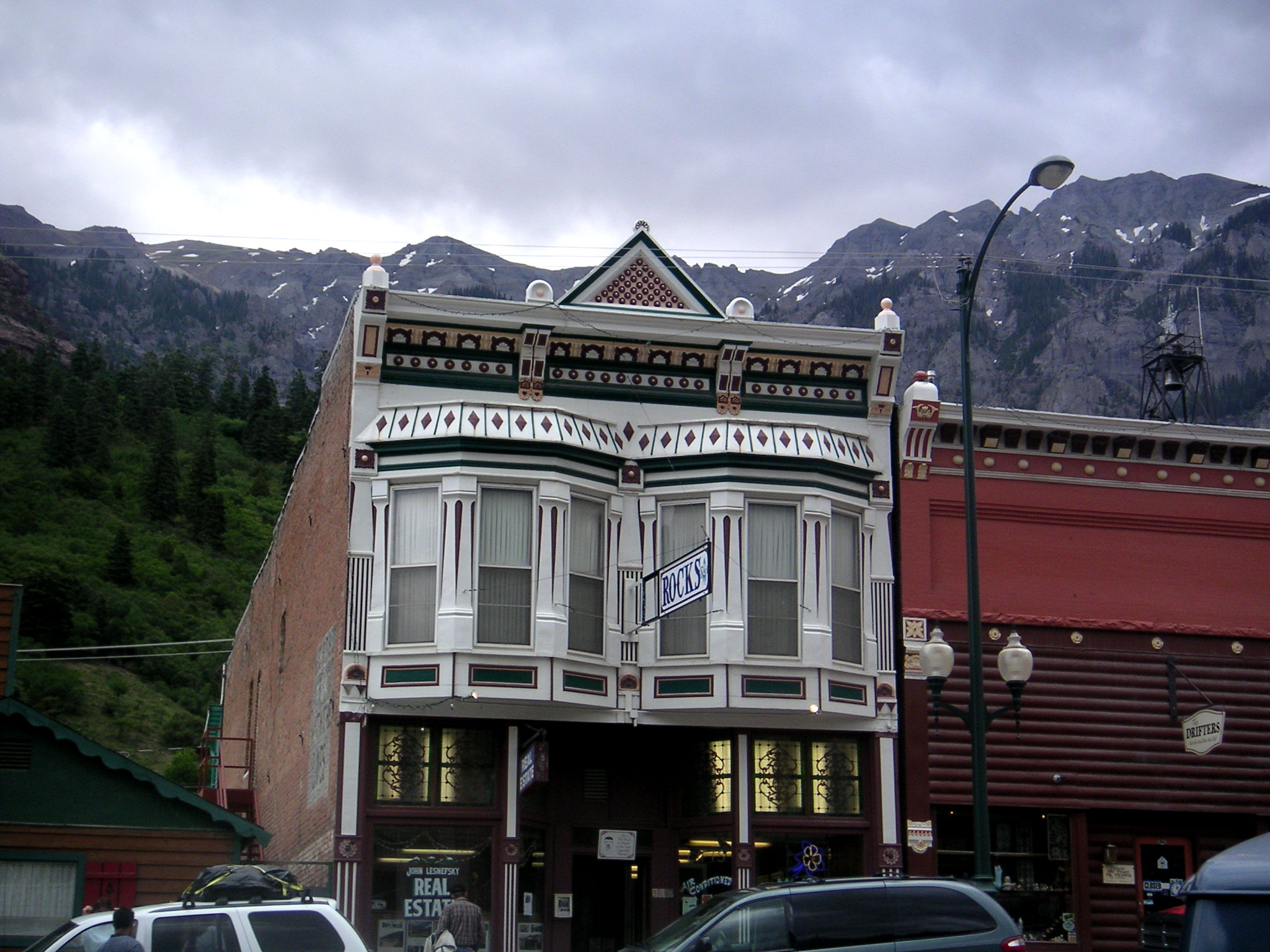 Building in Ouray Licensing Category:Images of Colorado